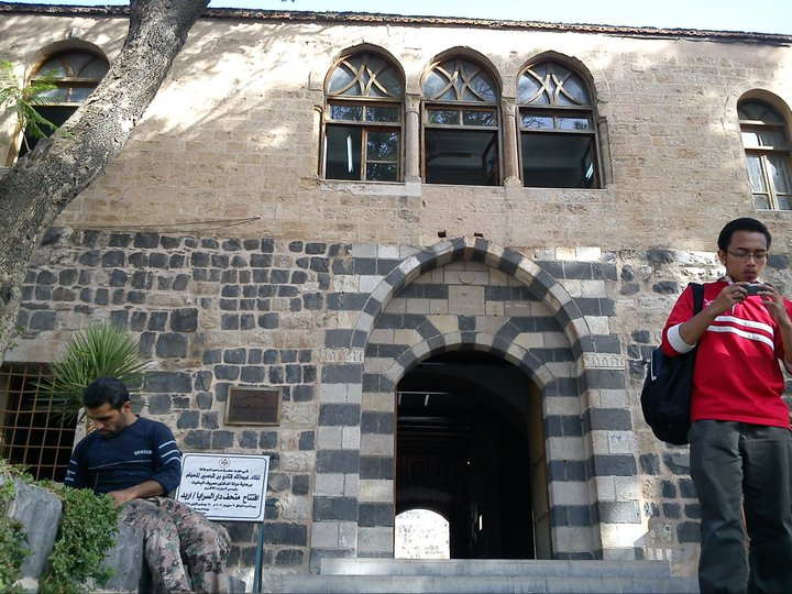 Dar Al-Saraya in Irbid